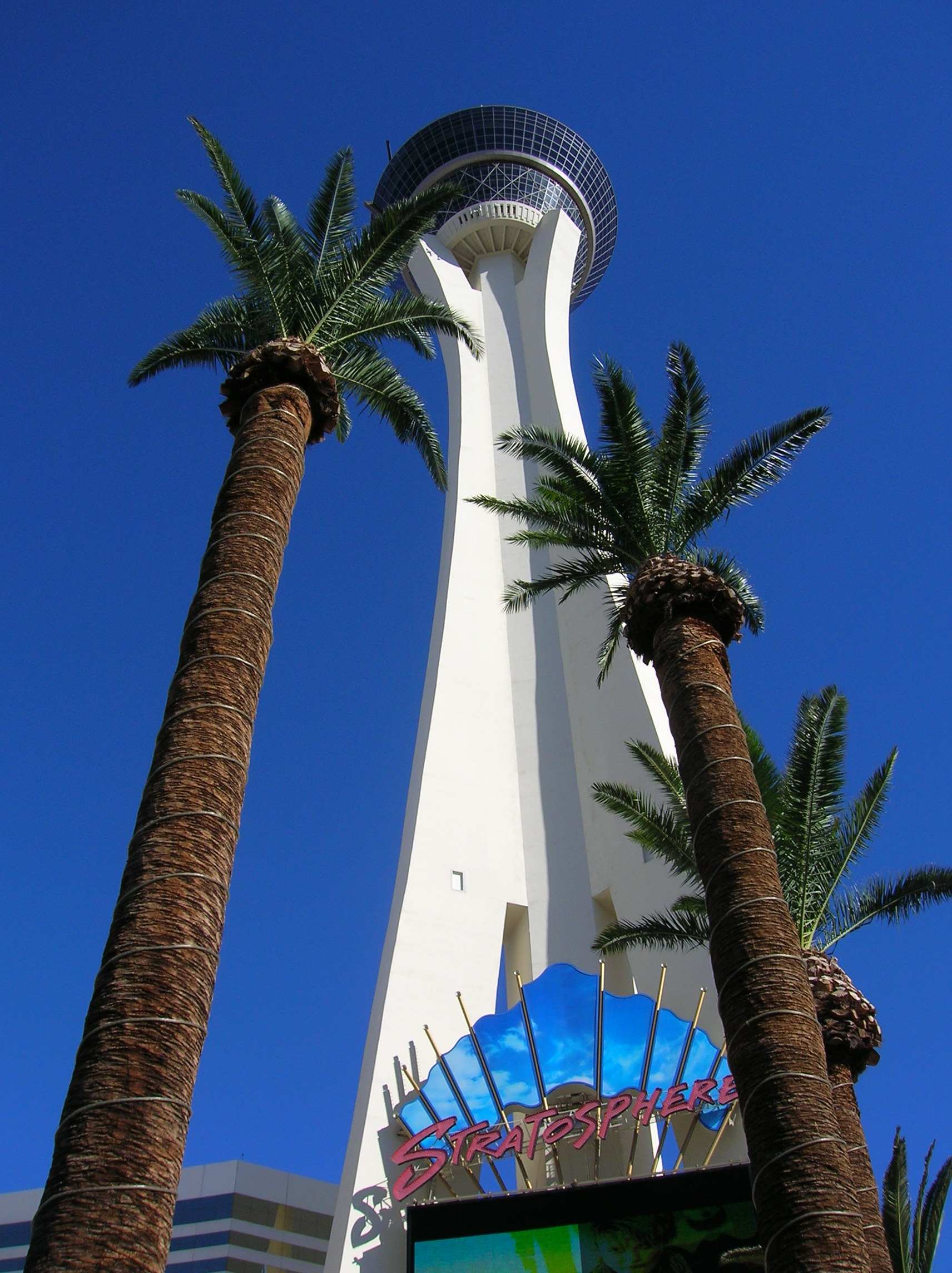 Stratosphere Tower, Las Vegas